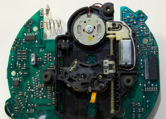 Underside of the optical deck of a common portable CD player. Shows the spindle motor, top center; screw drive and motor, right center; and at center the underside of the optical pickup (which holds laser diode assembly).